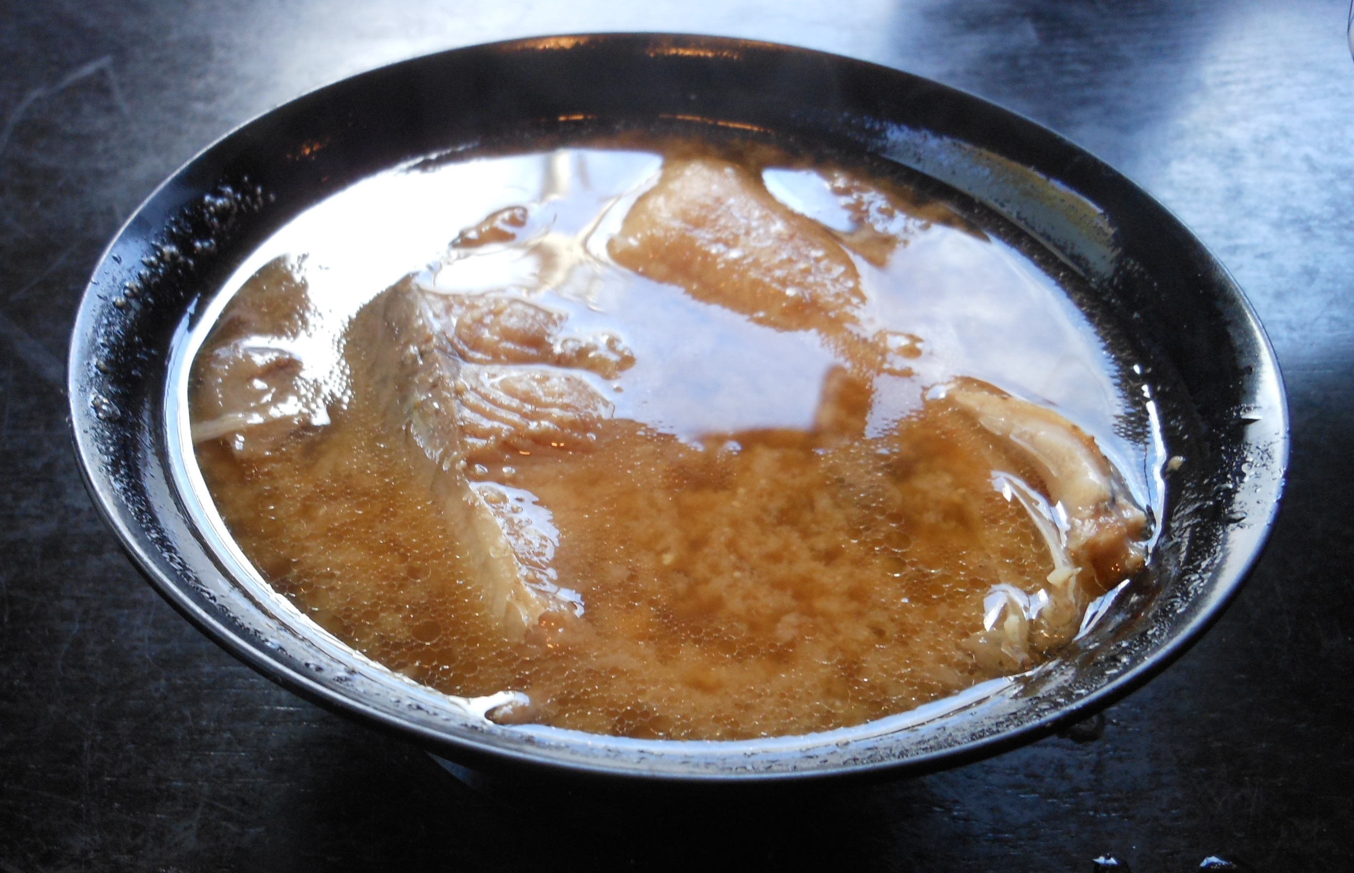 This is a bowl of Koikoku (miso soup of carp). It was served at Saku, Nagano, Japan.